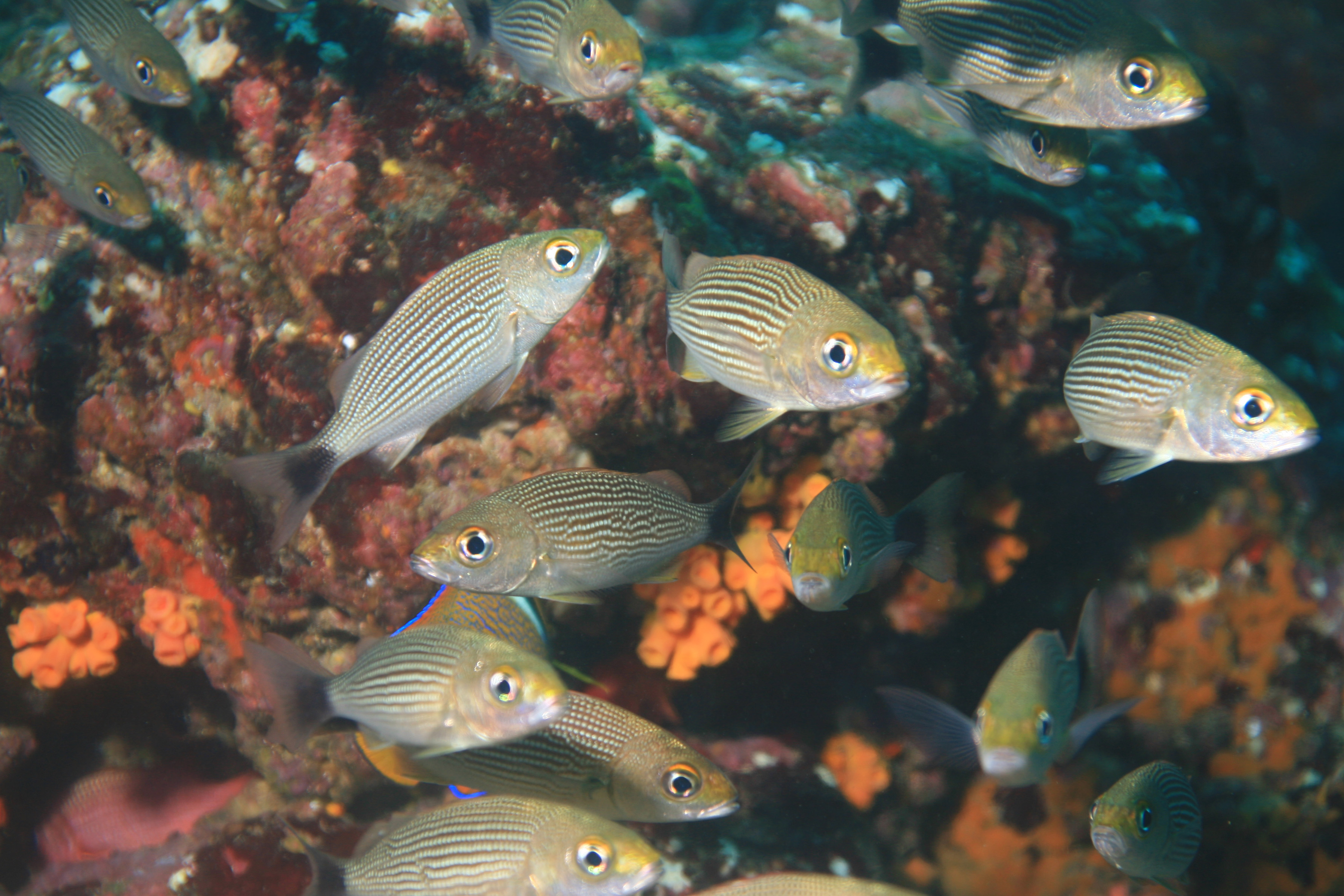 Xenocys jessiae photographed at Frijoles dive site in Coiba National Park, Panama.